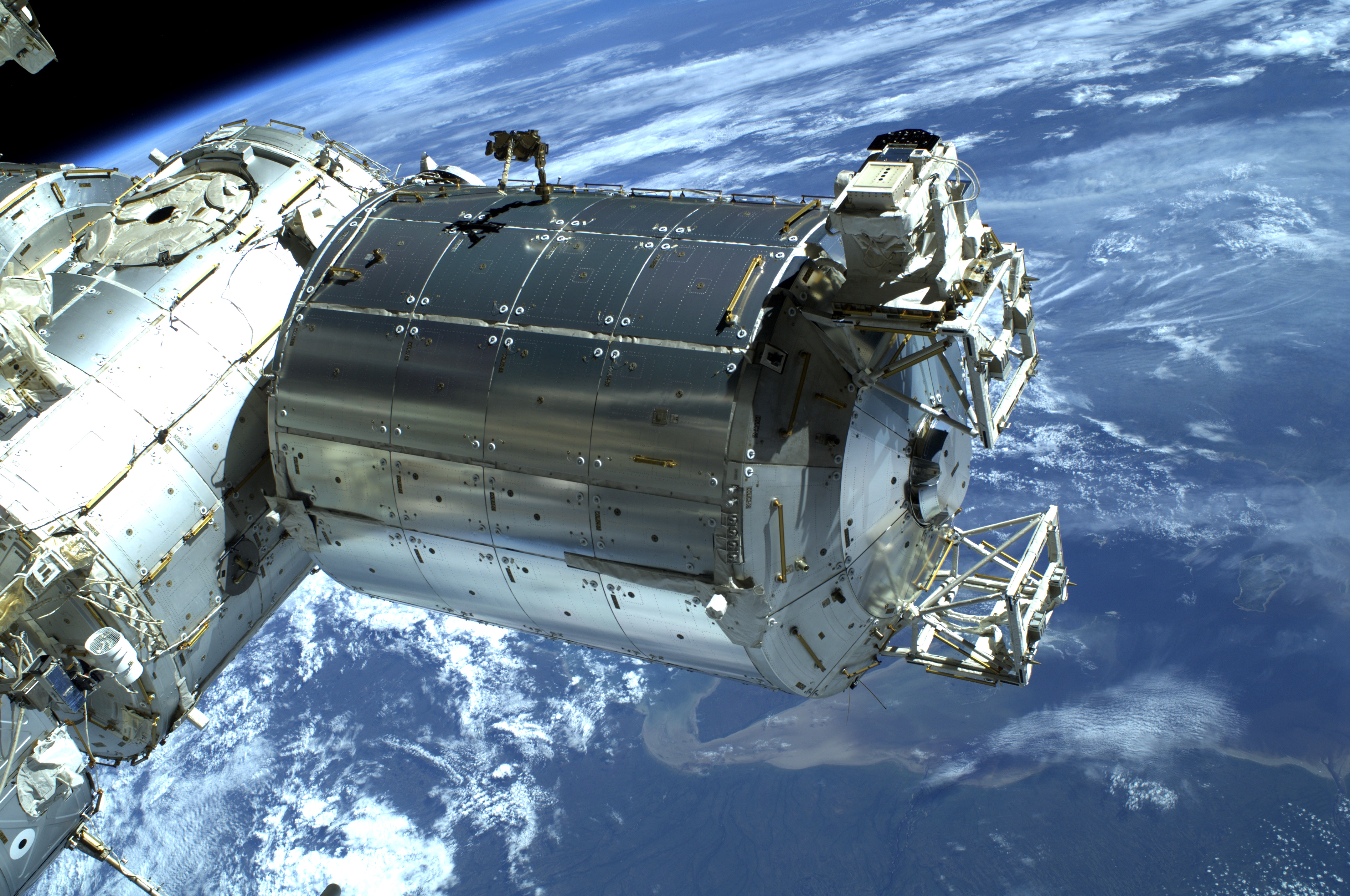 This image of Europe’s Columbus space laboratory aboard the International Space Station was taken by ESA astronaut Luca Parmitano during his spacewalk on July 9, 2013. He said "Flying over Columbus, i'm the farthest away from Earth".